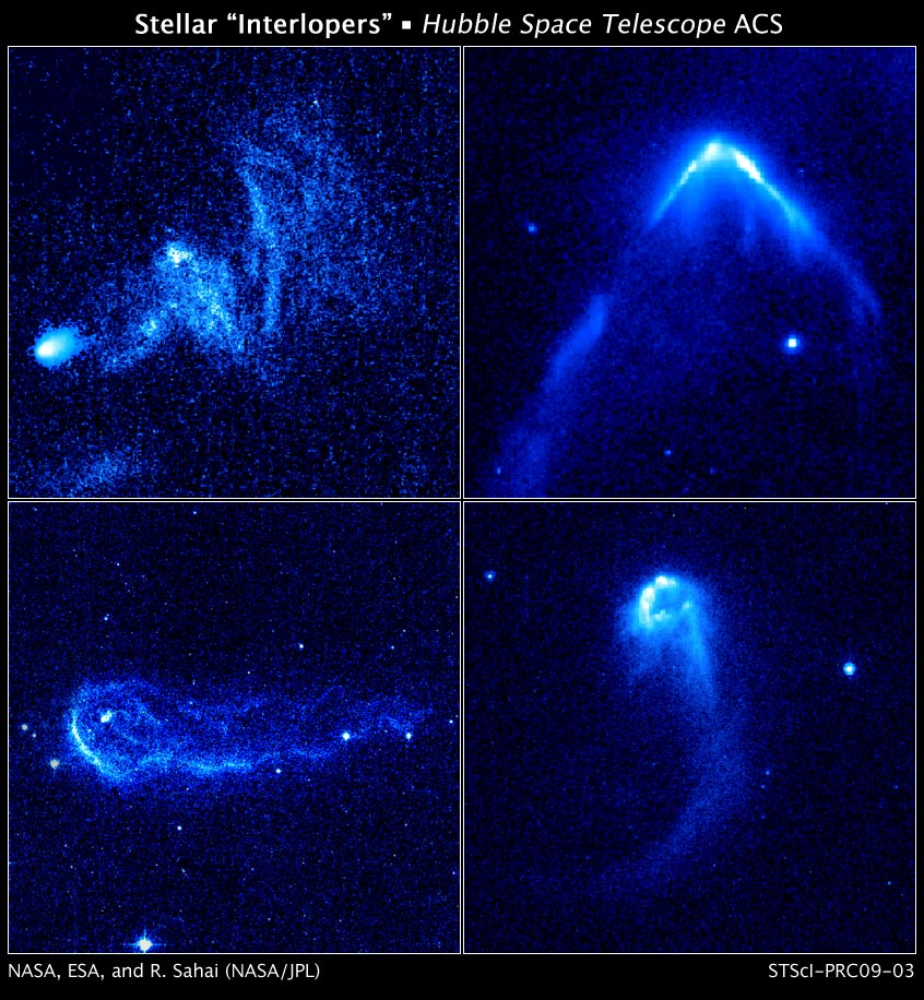 Resembling comets streaking across the sky, these four speedy stars are plowing through regions of dense interstellar gas and creating brilliant arrowhead structures and trailing tails of glowing gas. The stars in these NASA Hubble Space Telescope images are among 14 young runaway stars spotted by the Advanced Camera for Surveys between October 2005 and July 2006.